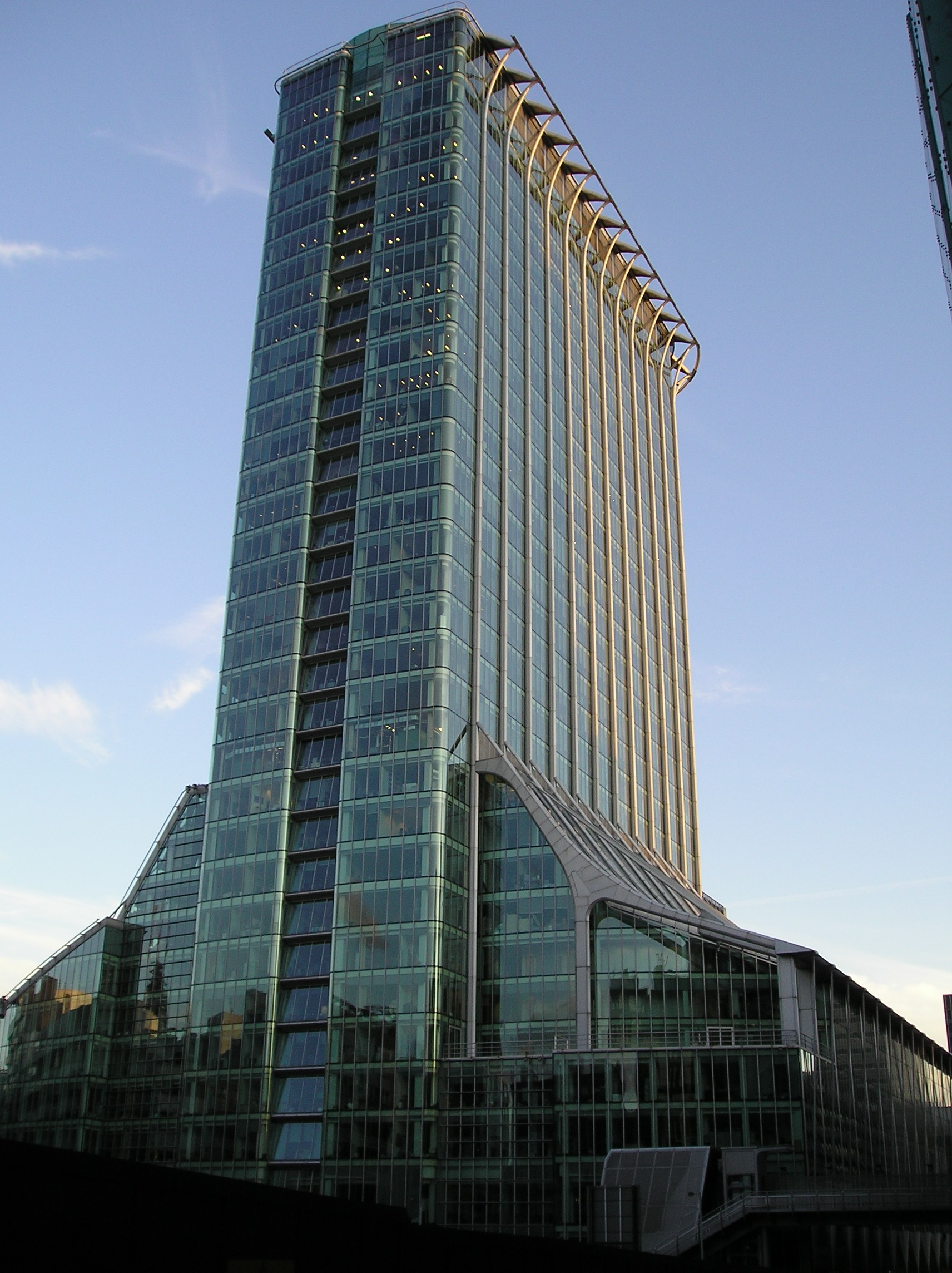 This photo was taken by me, Paul Dean (StoneColdCrazy), in 2007, and shows the CityPoint highrise building in London, at dusk on May 7th. I give permission for this image to be shared and used under the terms of the Creative Commons license (ie it is free to use, copy and transmit, but please credit me as author).